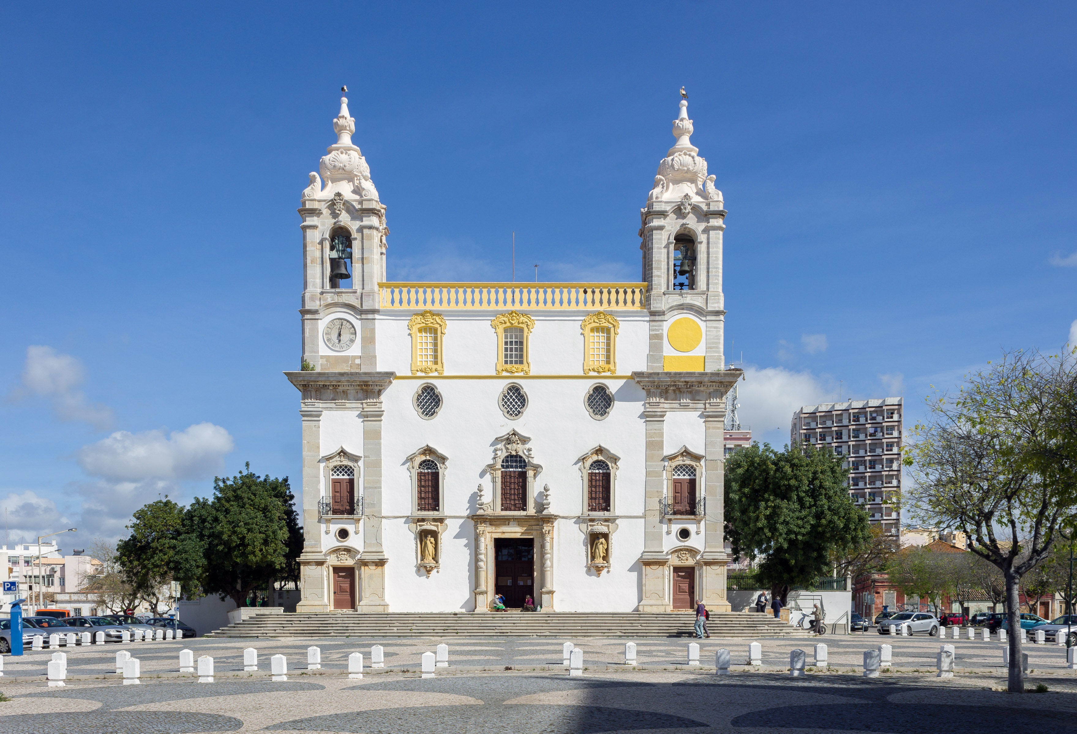 A church in Faro (Igreja da Ordem Terceira de Nossa Senhora do Monte do Carmo)